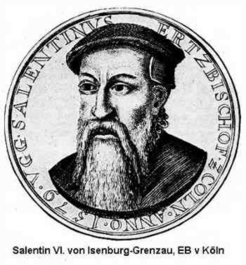 Copperplate likeness of the Archbishop of Cologne, Salentin von Isenburg Grenzau